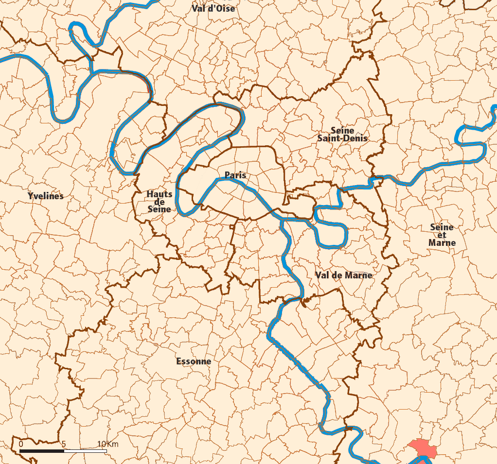 Created map myself